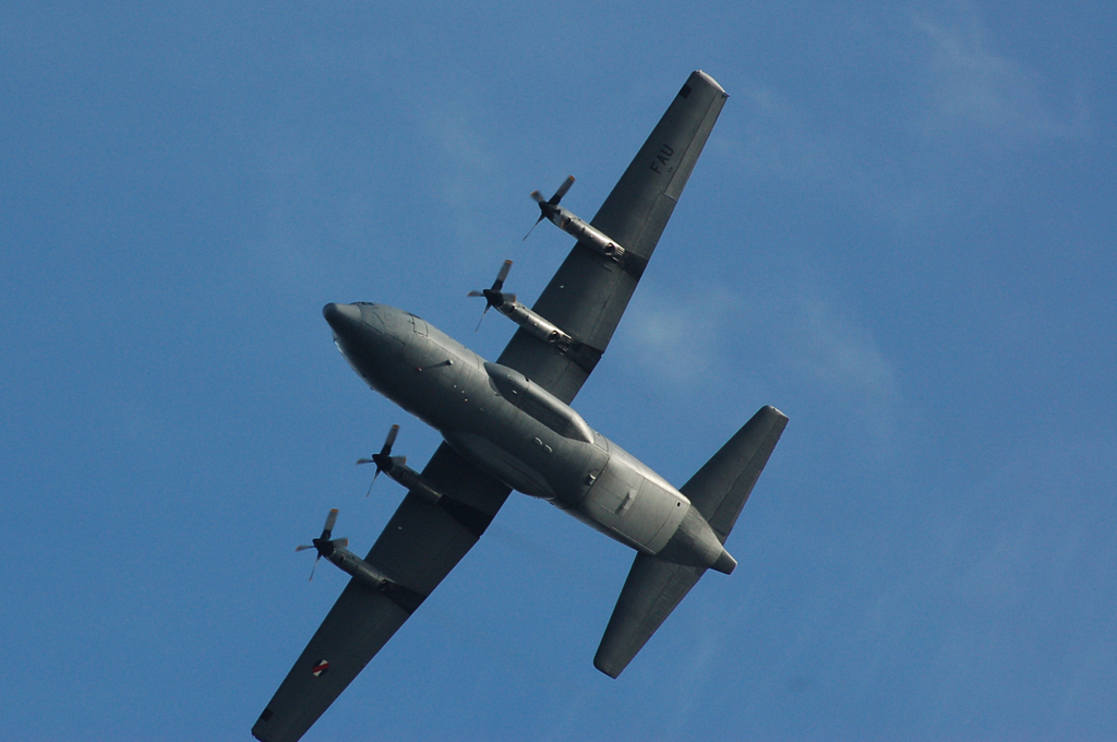 C130B "Hercules" flying during an airshow in Montevideo, Uruguay.